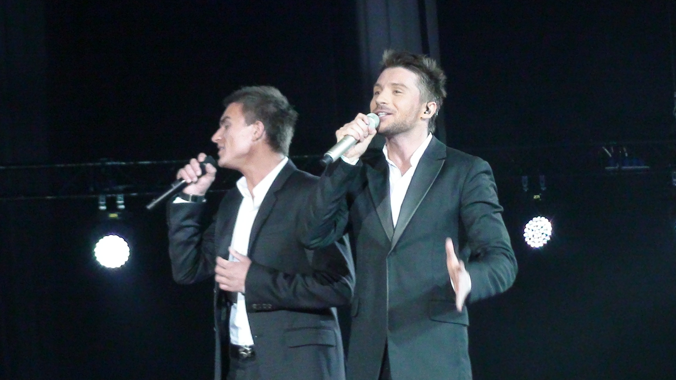 Russian group Shash!!, Crocus City Hall 16.11.2011